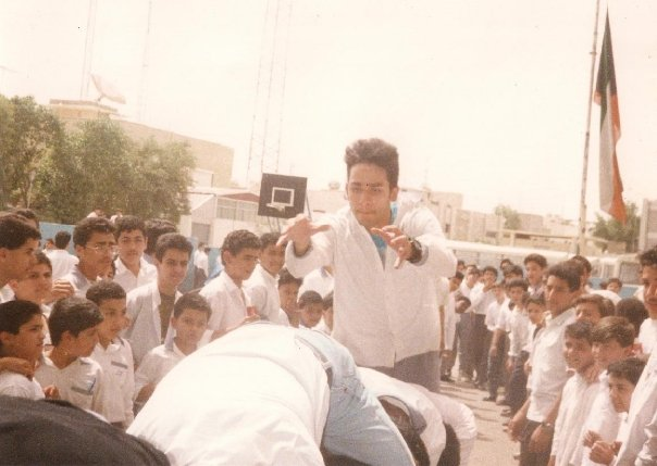 High School Students Playing Buck Buck at Al-Jameel High in Kuwait (1992)